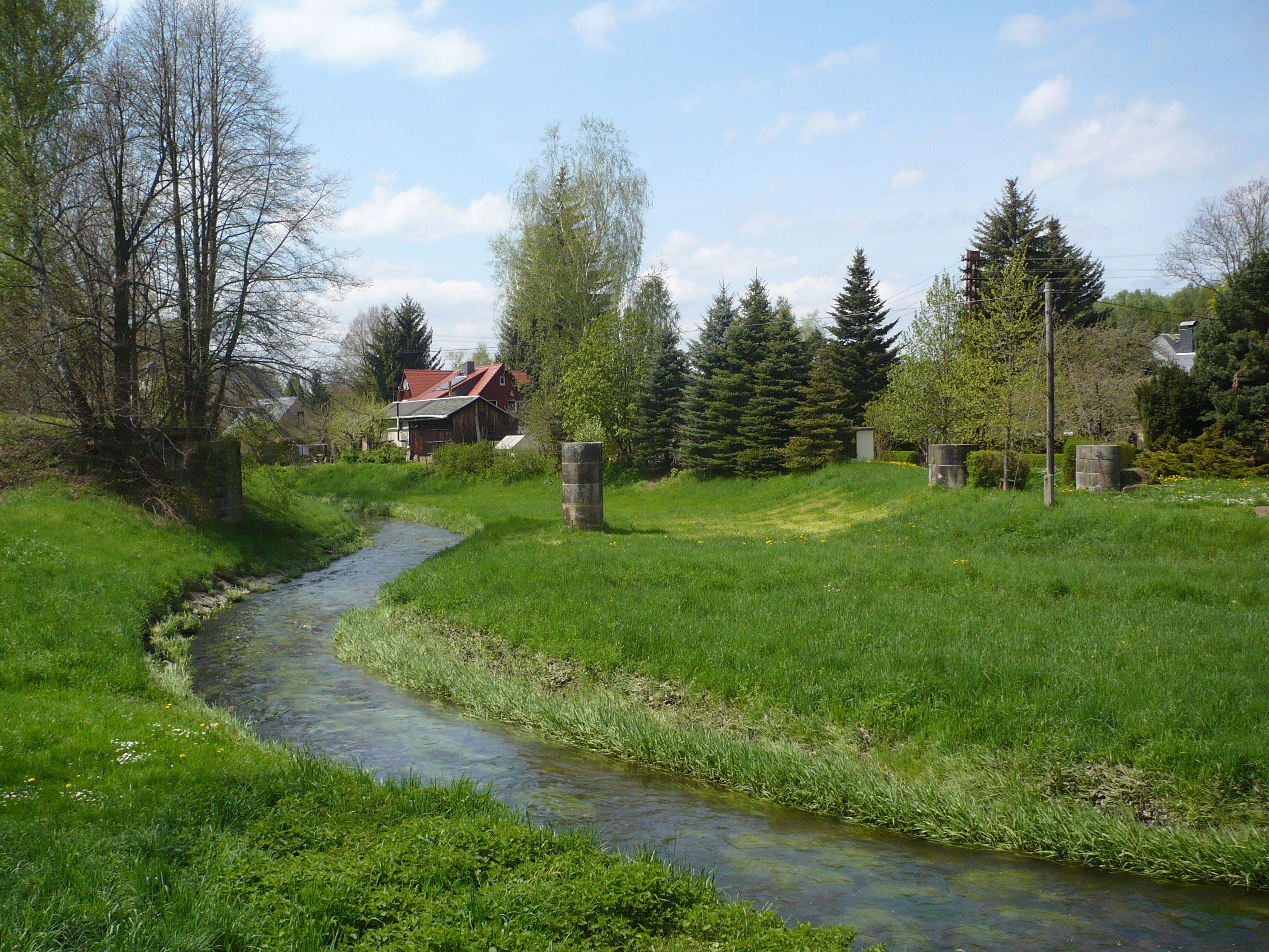 Pillars of the abolished railway bridge over Spree in Taubenheim.